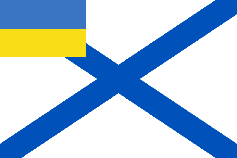 A plan of Ukrainian ceremonial saltire, 6 November 1918, but actually was used the usual saltire.